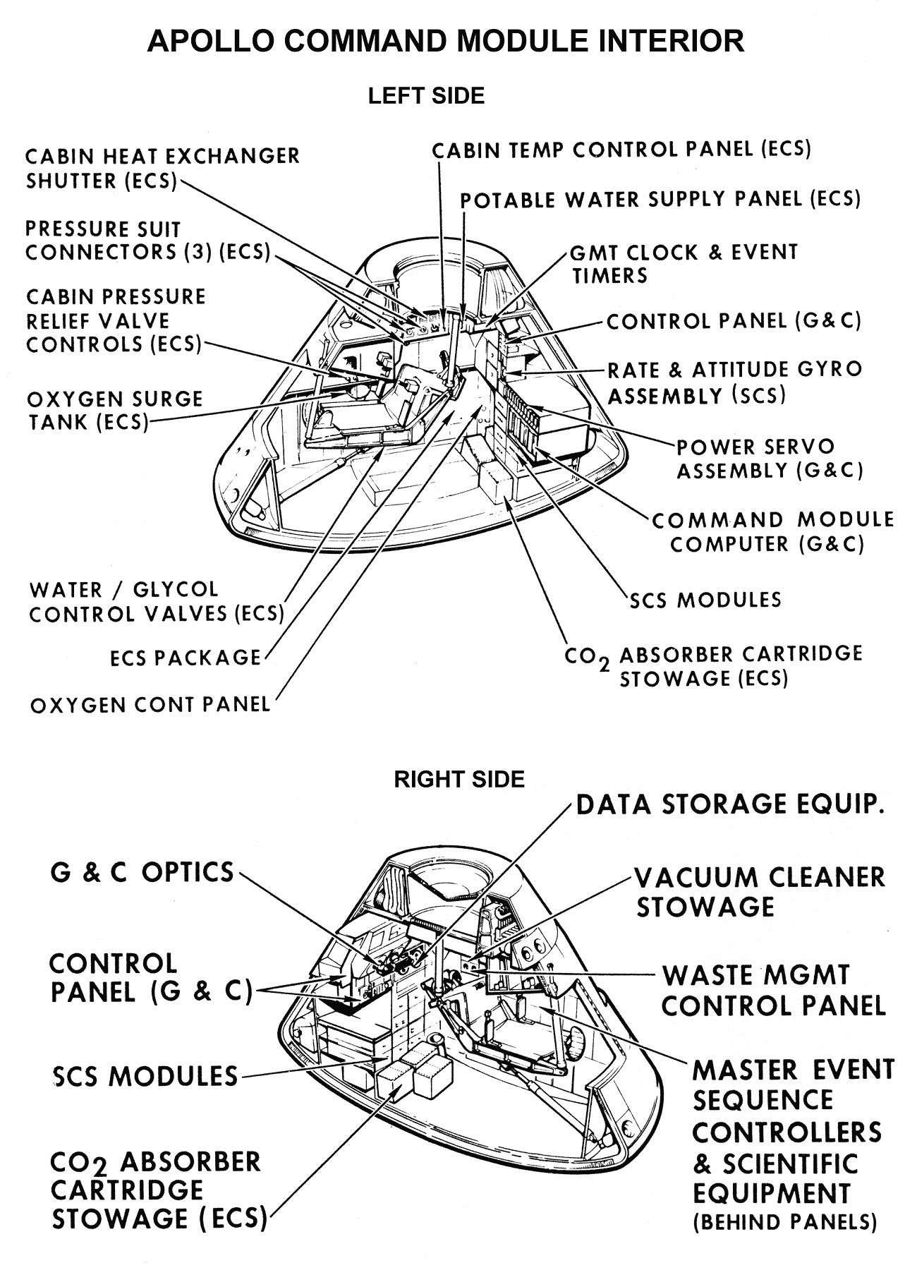 Apollo command module interior. "From Apollo Spacecraft & Systems Familiarization"